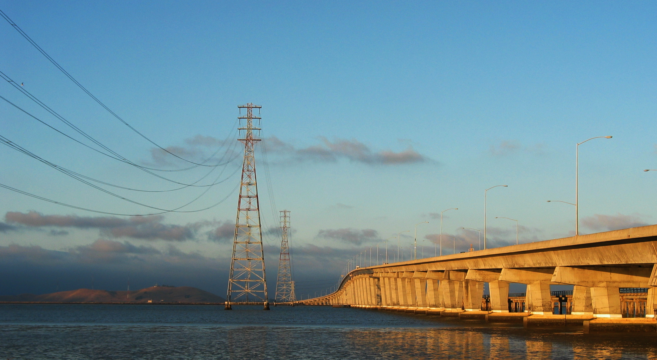 The power towers and the Dumbarton Bridge at sundown. Photo is taken from the north side of the bridge, looking east.